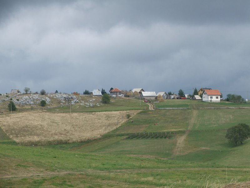 Panoramic view of Jabuka near Prijepolje, Serbia